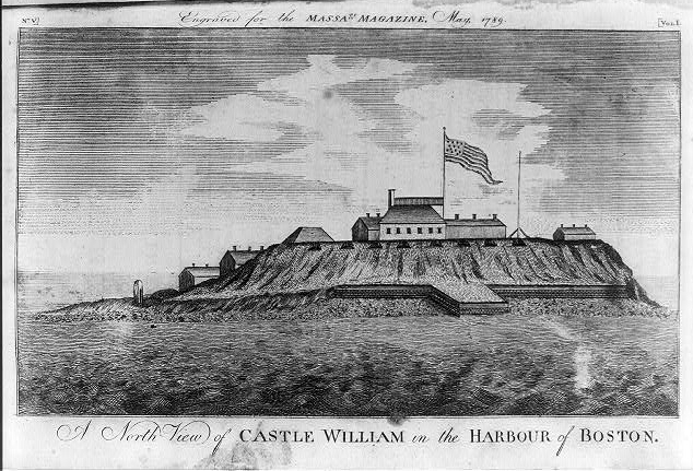 Castle William, Boston Harbor. Engraving published in Massachusetts Magazine, May 1789